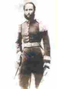 Pedro Diez Canseco in 1863